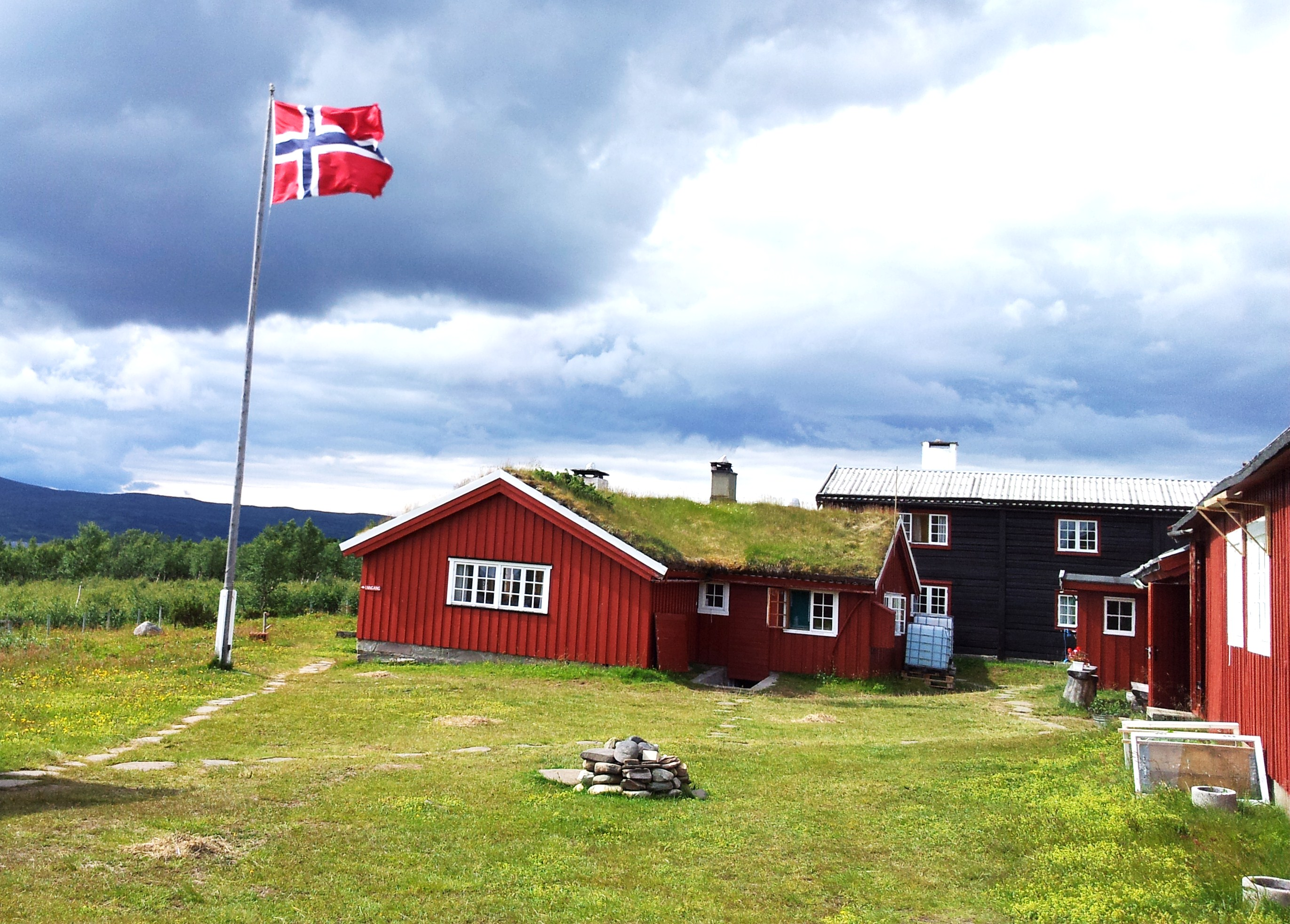 Storerikvollen, a Norwegian tourist cabin, owned by the Norwegian Trekking Association (DNT), in the mountain range of Sylan in Tydal, Sør-Trøndelag county in Norway